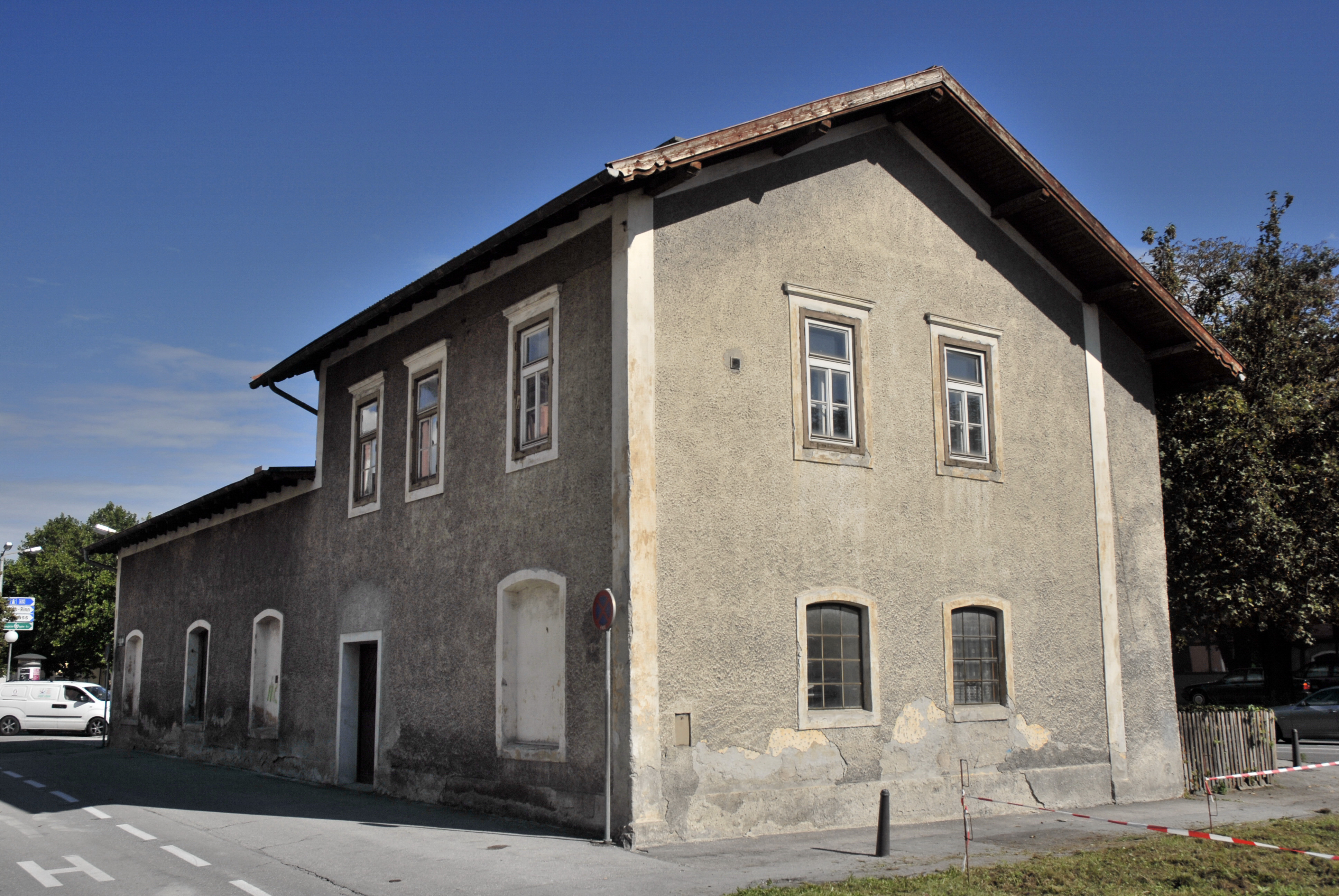 Hall in Tirol, Haus Pfannhausstraße 2, Remise der Lokalbahn Hall - Innsbruck This media shows the remarkable cultural object in the Austrian state of Tyrol listed by the Tyrolean Art Cadastre with the ID 70436. (on tirisMaps, pdf, more images on Commons, Wikidata)